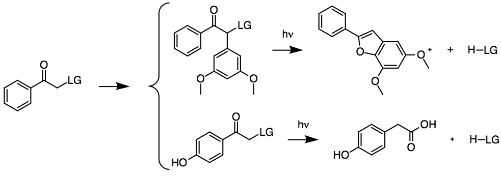 Phenacyl PPFs